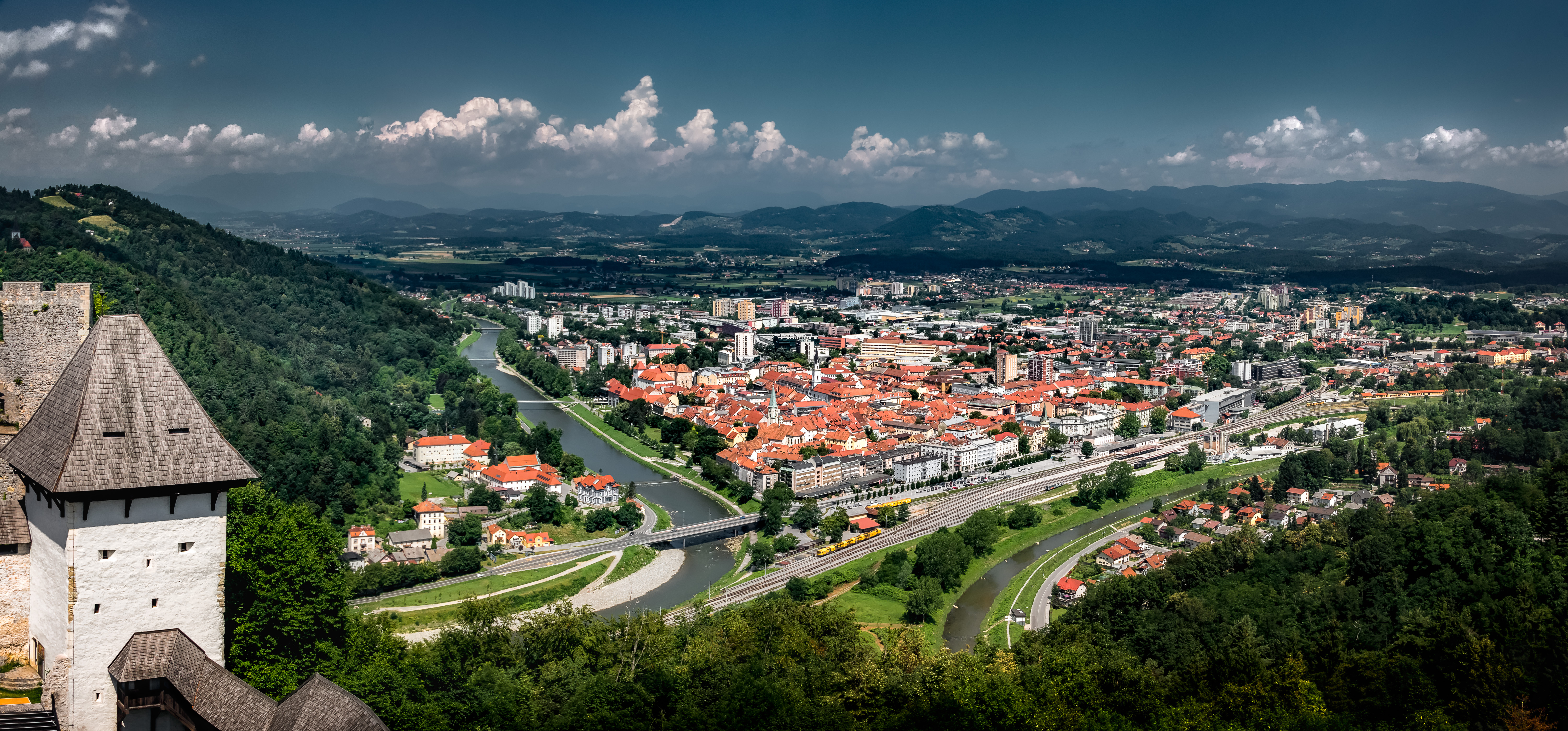 Celje is an old Slovenian town. This is the view from Frederick's Tower. The old castle was built by the Counts of Celje in the 14th century.